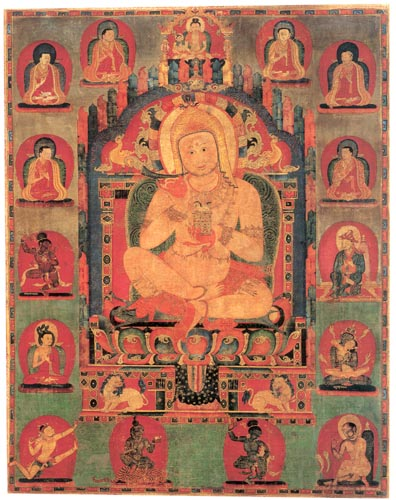 Jnanatap. A cloth from Riwoche Monastery, Tibet, from the 14th century.